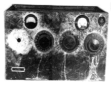 One of the illegal radiostations Sparta I, which was used by the Czechoslovak resistance movement (a group of radio operators gathered around Prof. Vladimír Krajina) in the Protectorate (during WWII). This types of radios were used for connections the domestic resistance movement with the government of Dr. Edvard Beneš in exile in London. Not very clear photograph of the front panel (probably made before of 1945).